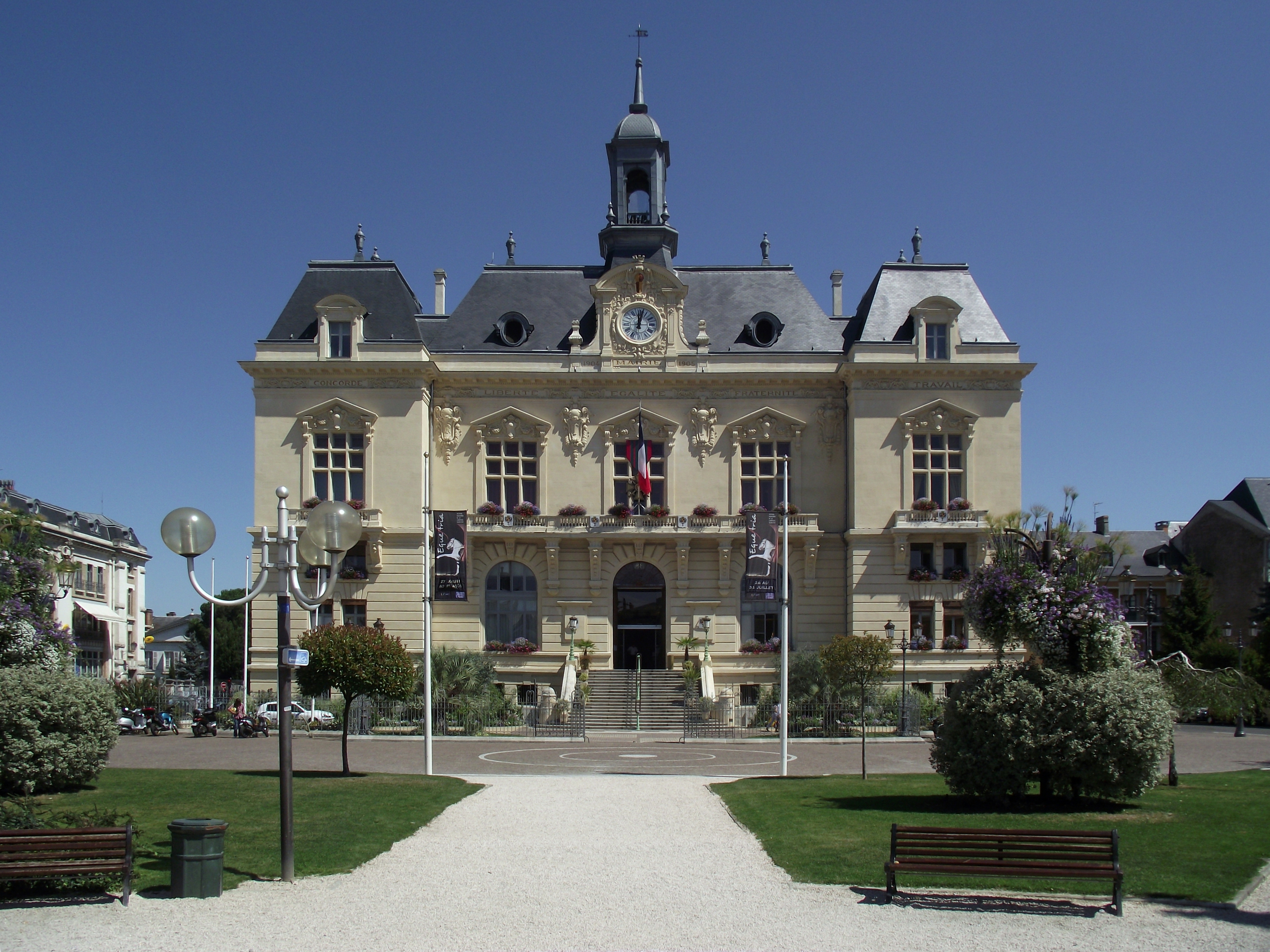 Tarbes Town Hall, Hautes-Pyrénées, France